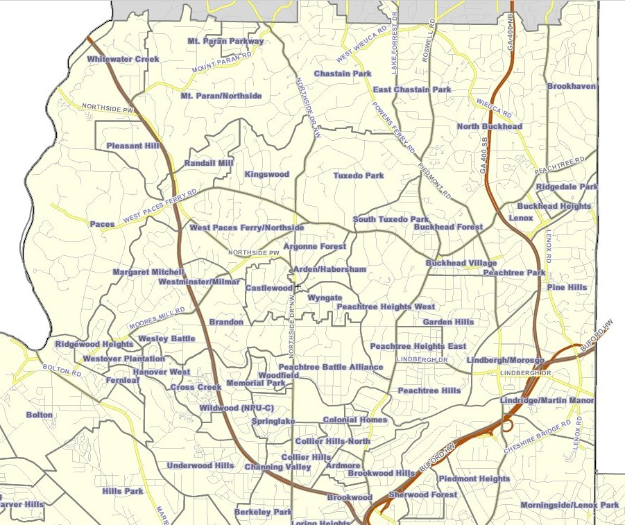 Map of neighborhoods of Buckhead Community, Atlanta, Georgia, USA